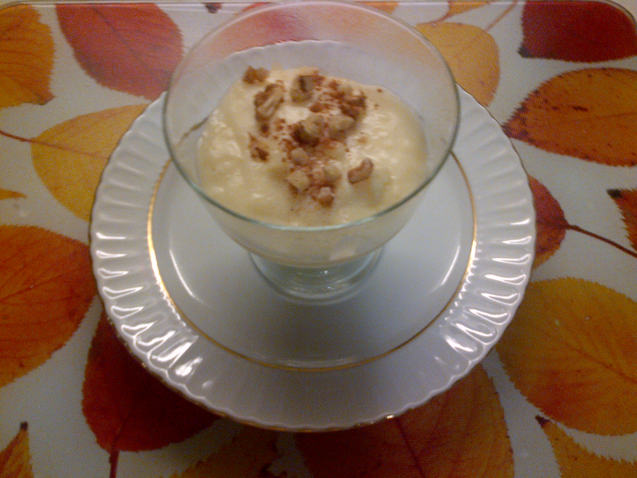 "Keşkül" is a Turkish cuisine milk pudding made with almonds. In this picture presented with cracked walnuts on it.